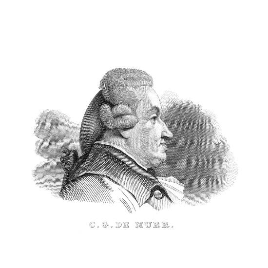 Portrait of Christoph Gottleib von Murr